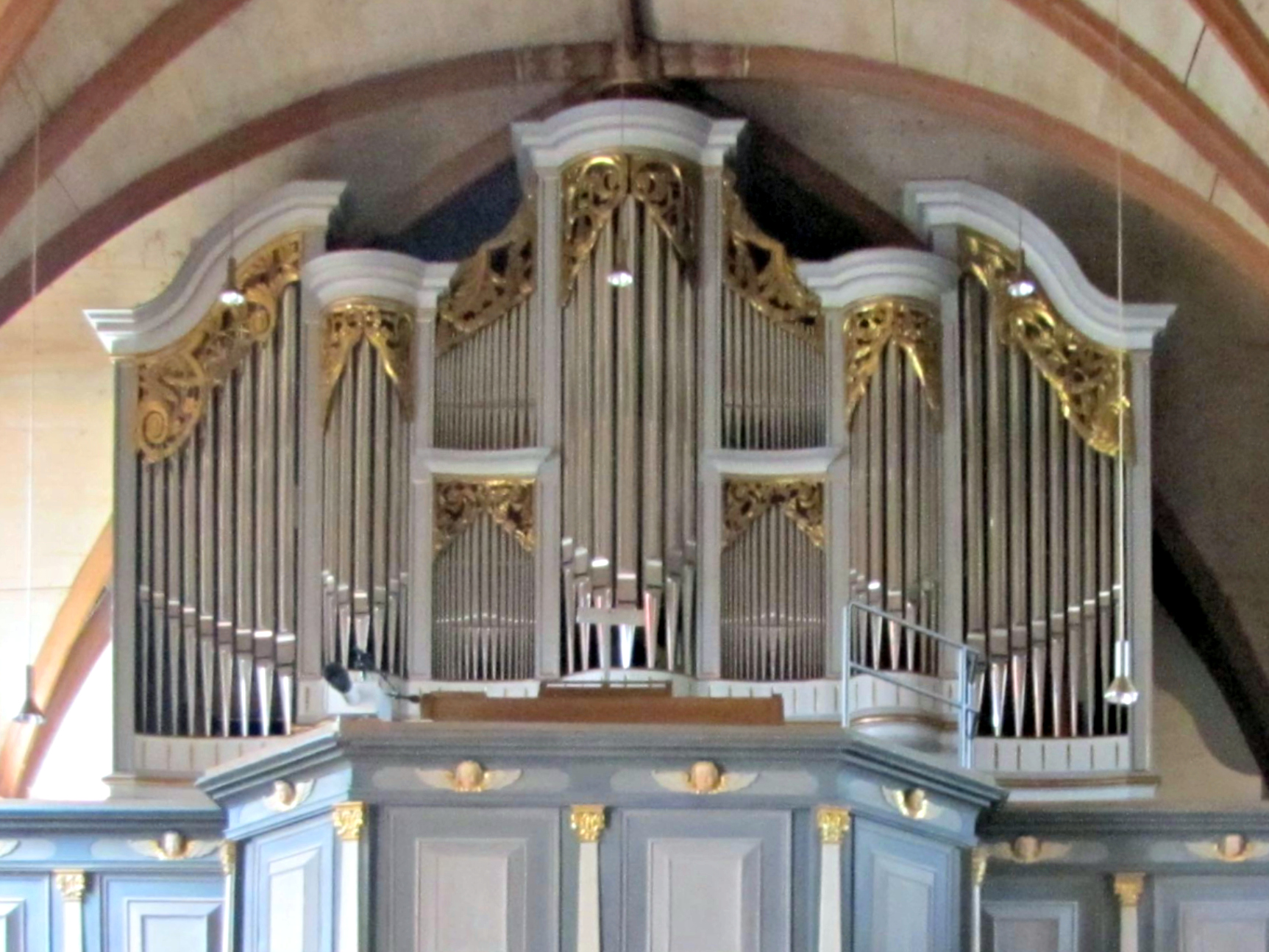 Organ of Saint Ursula church in Oberursel, Hesse, Germany.